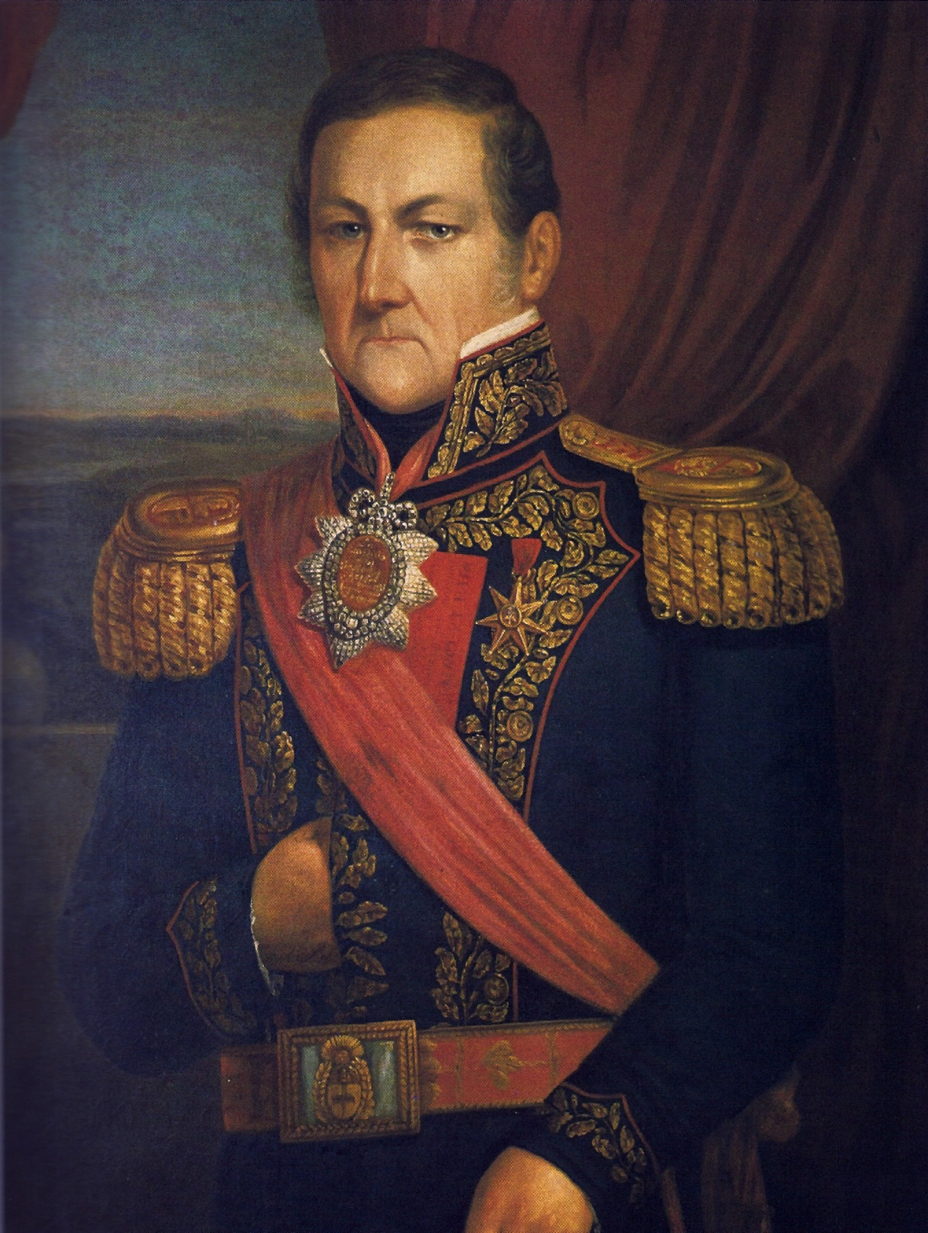 Juan Manuel de Rosas, ruler of Argentina. According to historian Juan A. Pradère, it was painted by Fernando García del Molino (1813–1899). Source: Soares de Sousa (1955), pp.84–85